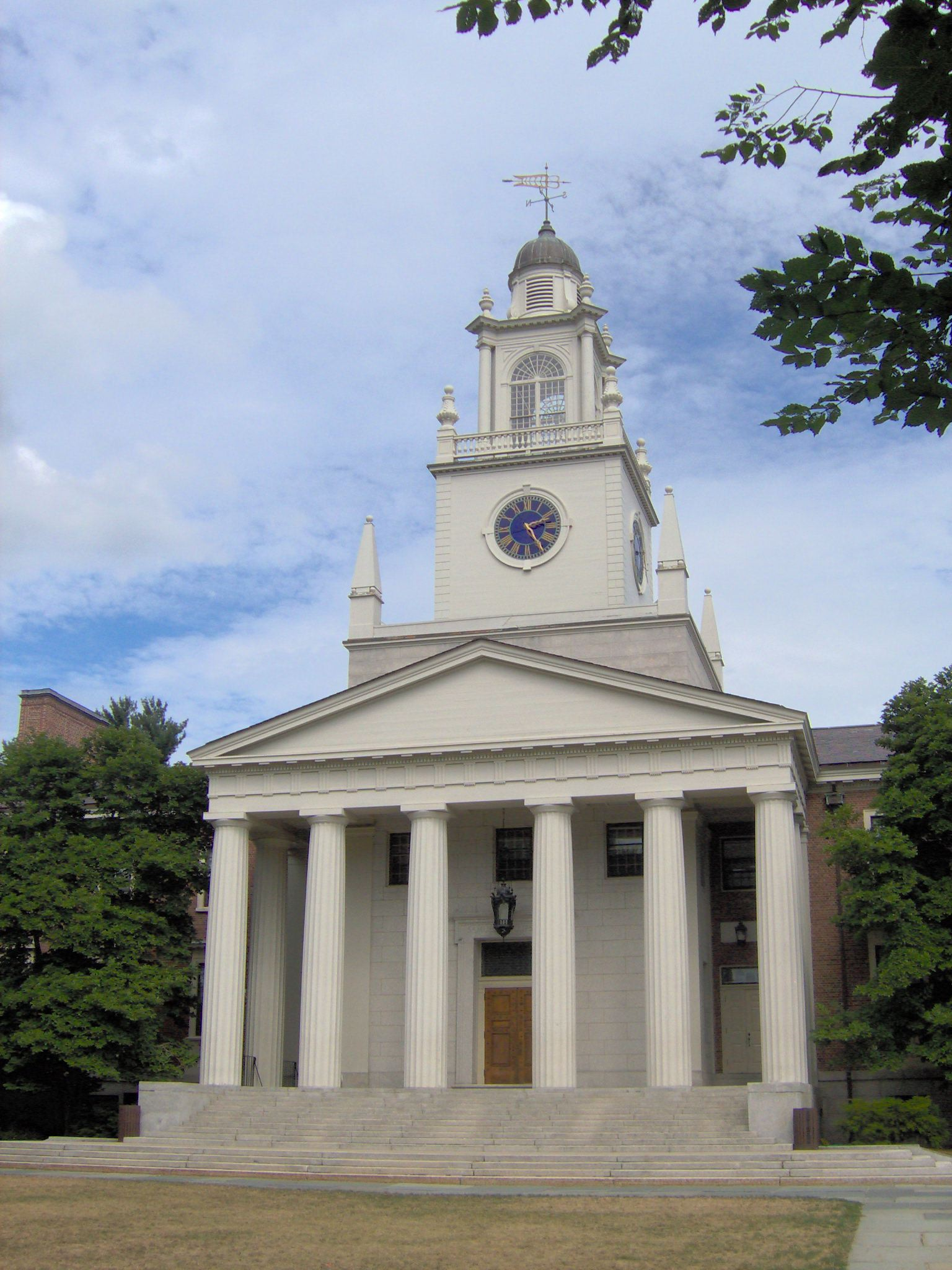 Took this photo of Samuel Phillips Hall at Phillips Academy Andover in Andover, MA in August of 2005.